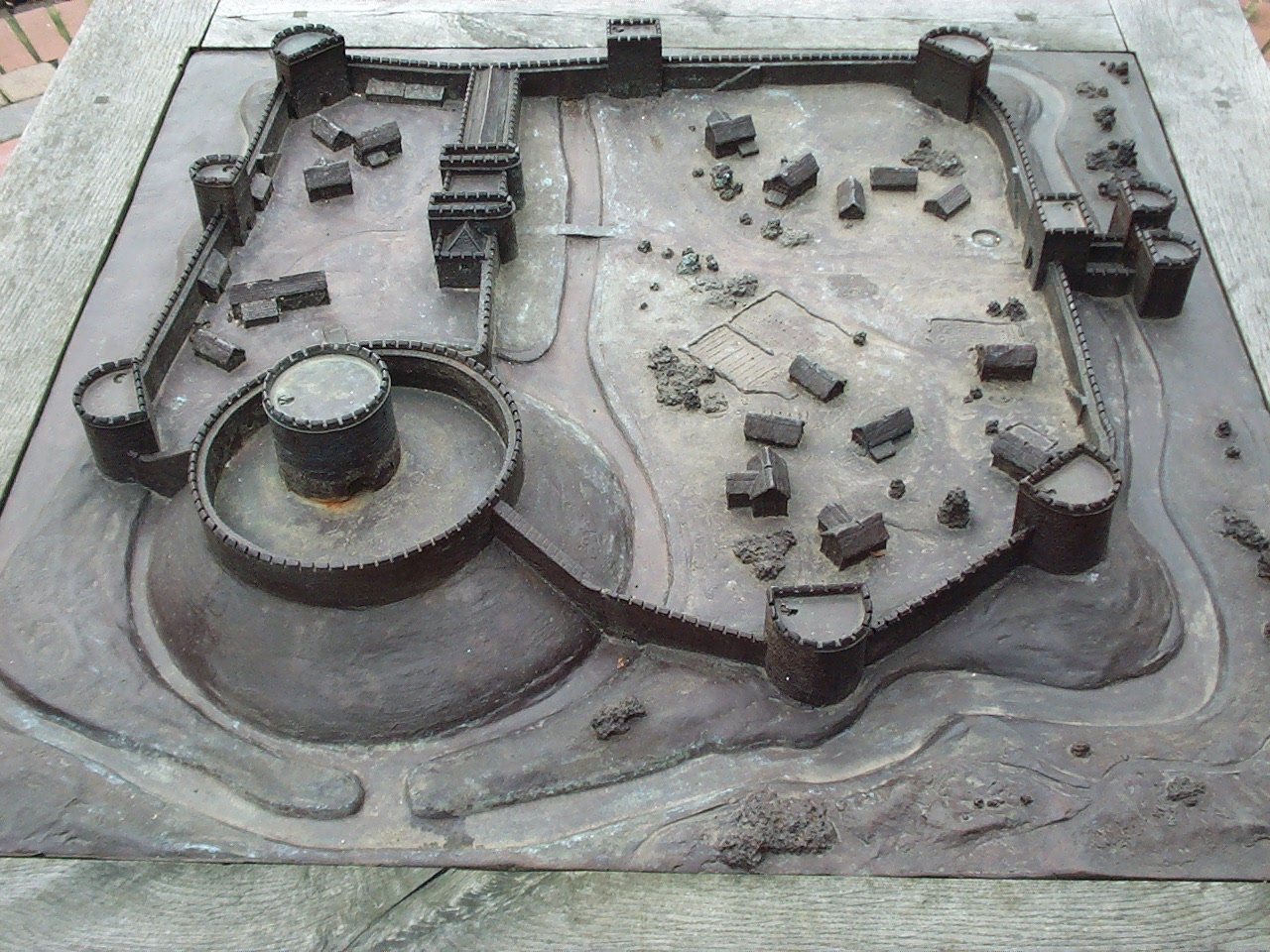 Model of Bedford Castle as was. The castle is now completely gone and all that can be seen is a landscaped mound of earth on which the keep would have stood. The model is on display between the castle mound and Bedford Museum in Bedford, Bedfordshire, England. Sculptor:- Aron McCartney.